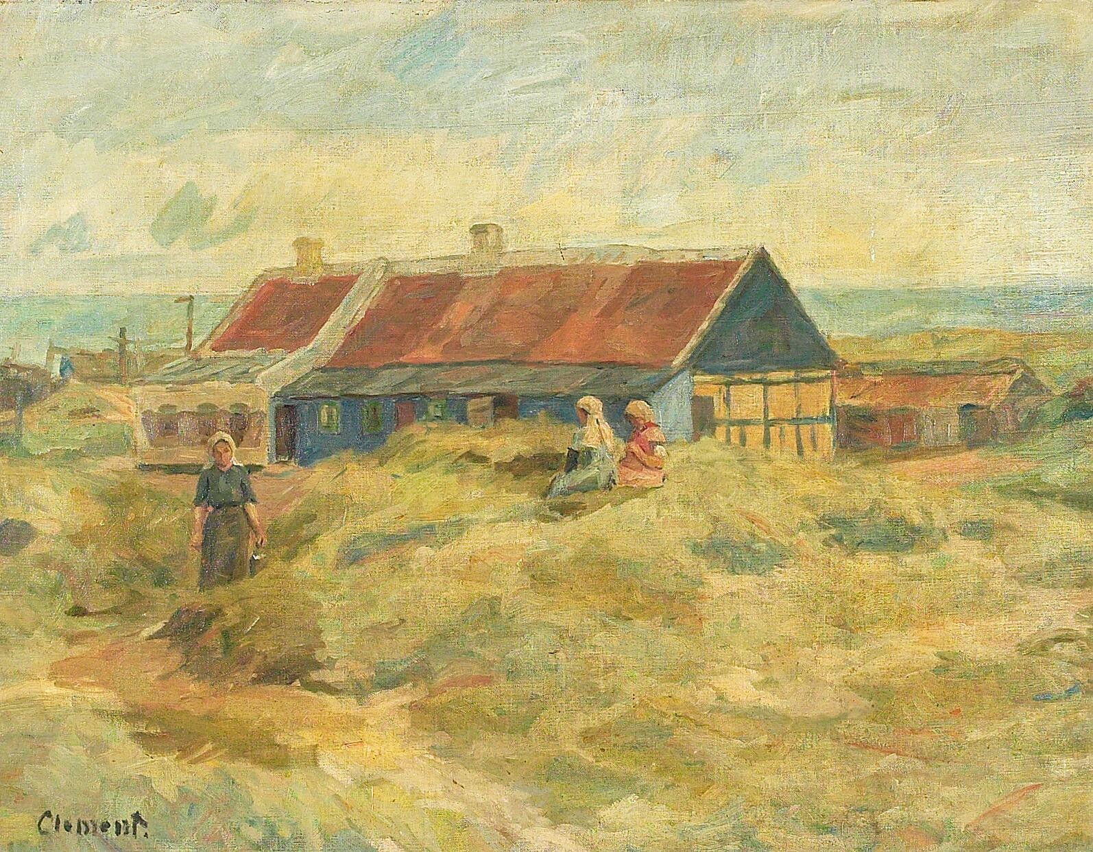 The Blue House in Skagen", oil painting by the Danish artist Gad Frederk Clement.